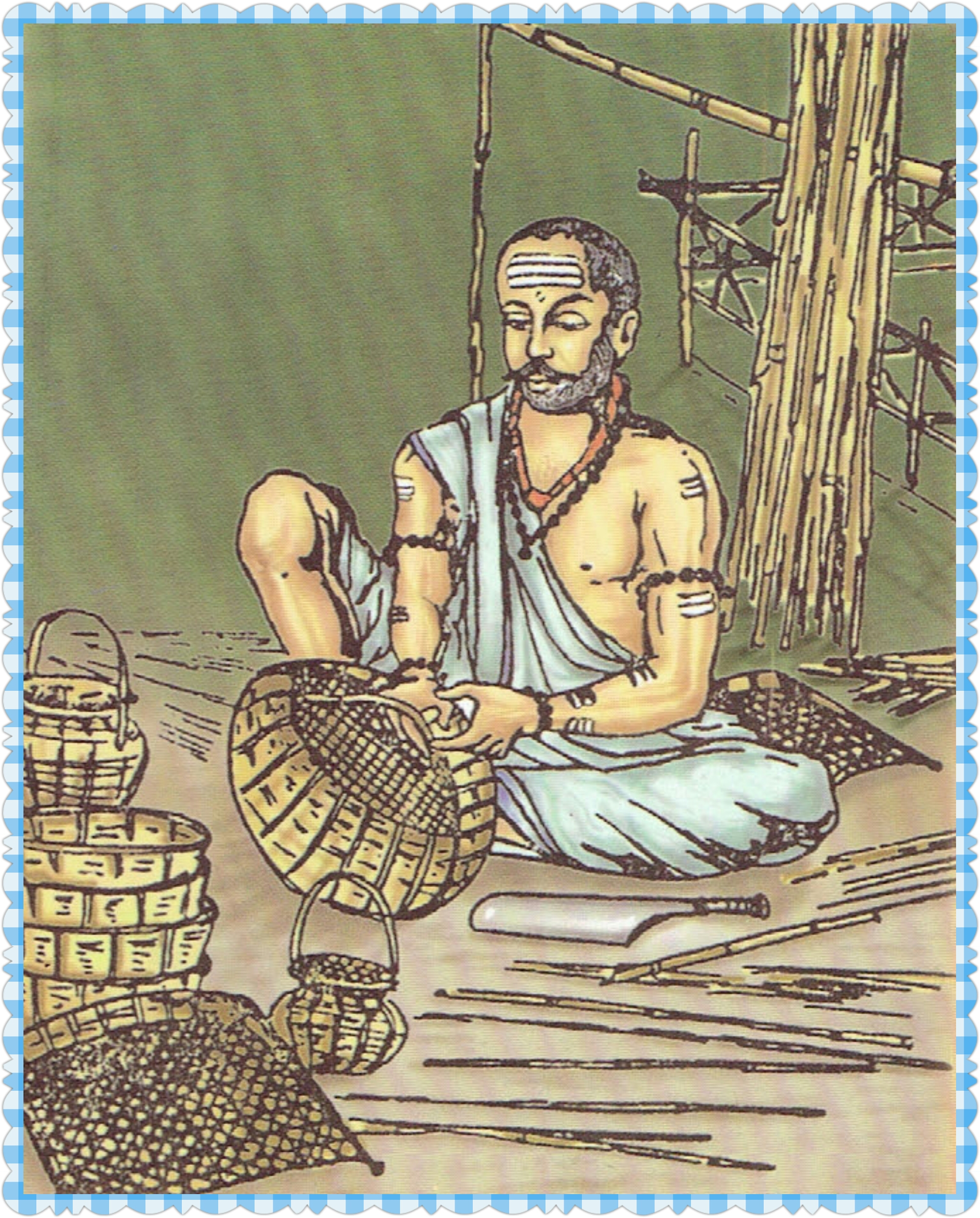 bidiru kaayaka